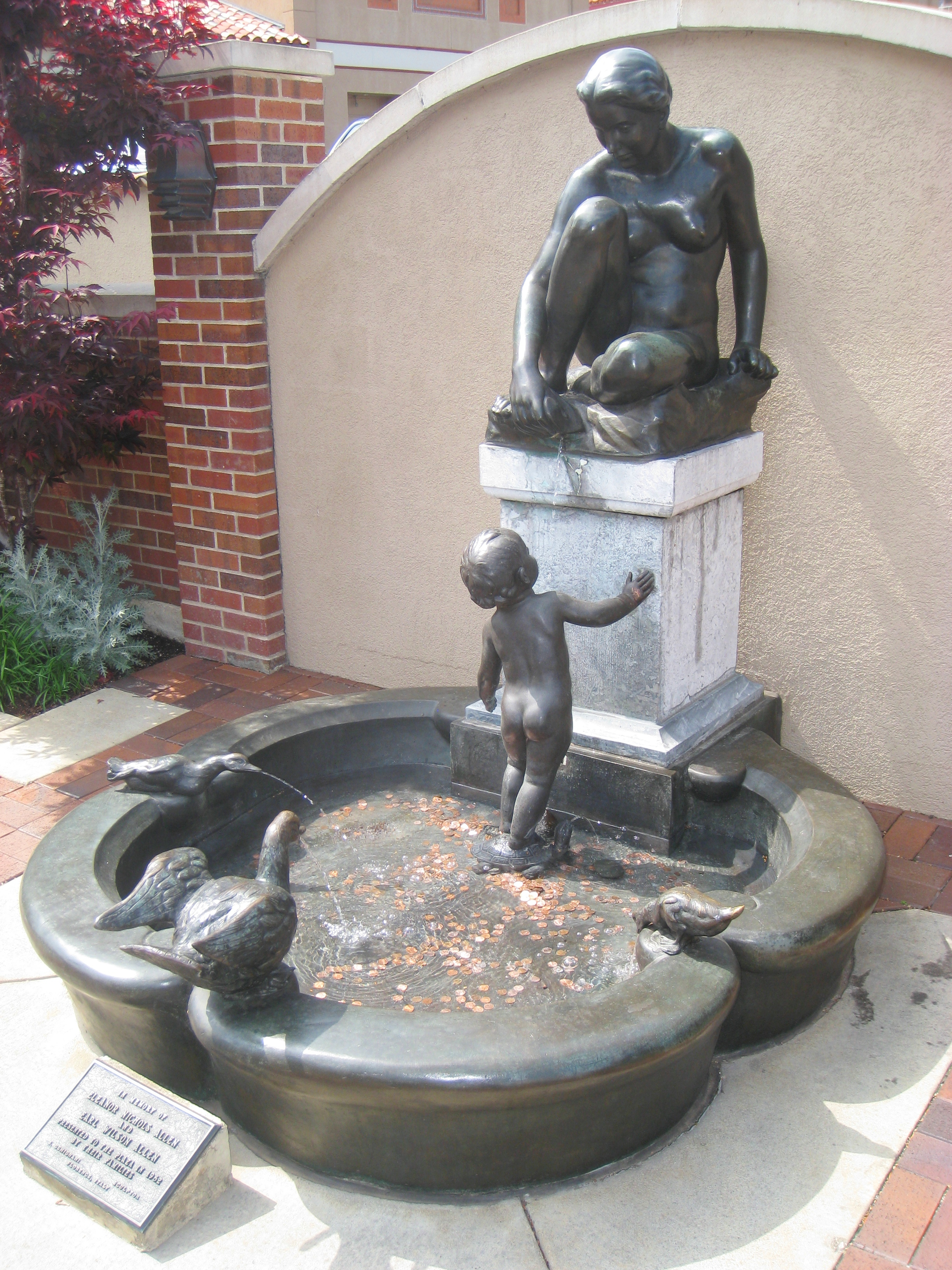 This fountain is in the Country Club Plaza, Kansas City, Missouri, USA. According to a plaque on the fountain, it was installed in the plaza in 1962 in memory of Eleanor Nichols Allen and Earl Wilson Allen.